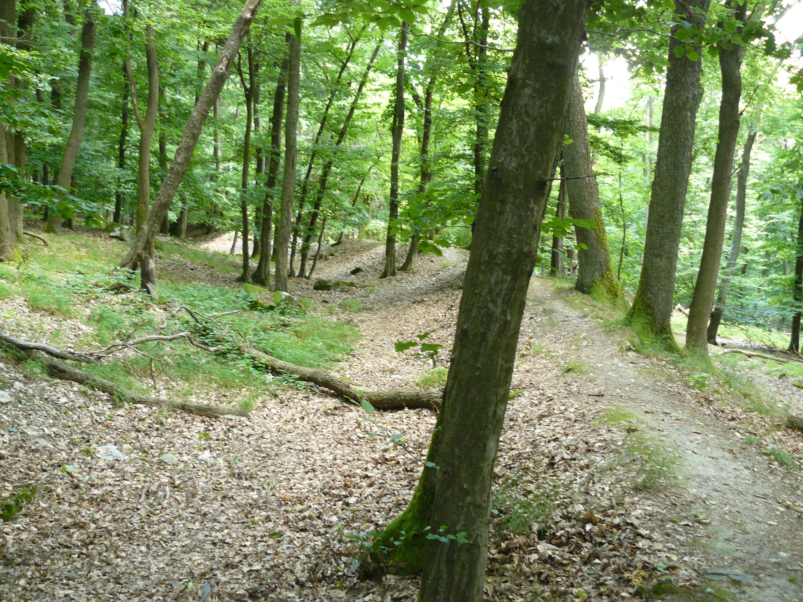 Medieval circular rampart on mountain Hünerberg (Taunus, Germany)